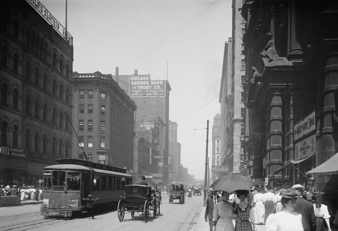 Image of State Street, Chicago, IL c. 1900. The Palmer House is pictured to the left - Pike's Building is across the street to the far right.